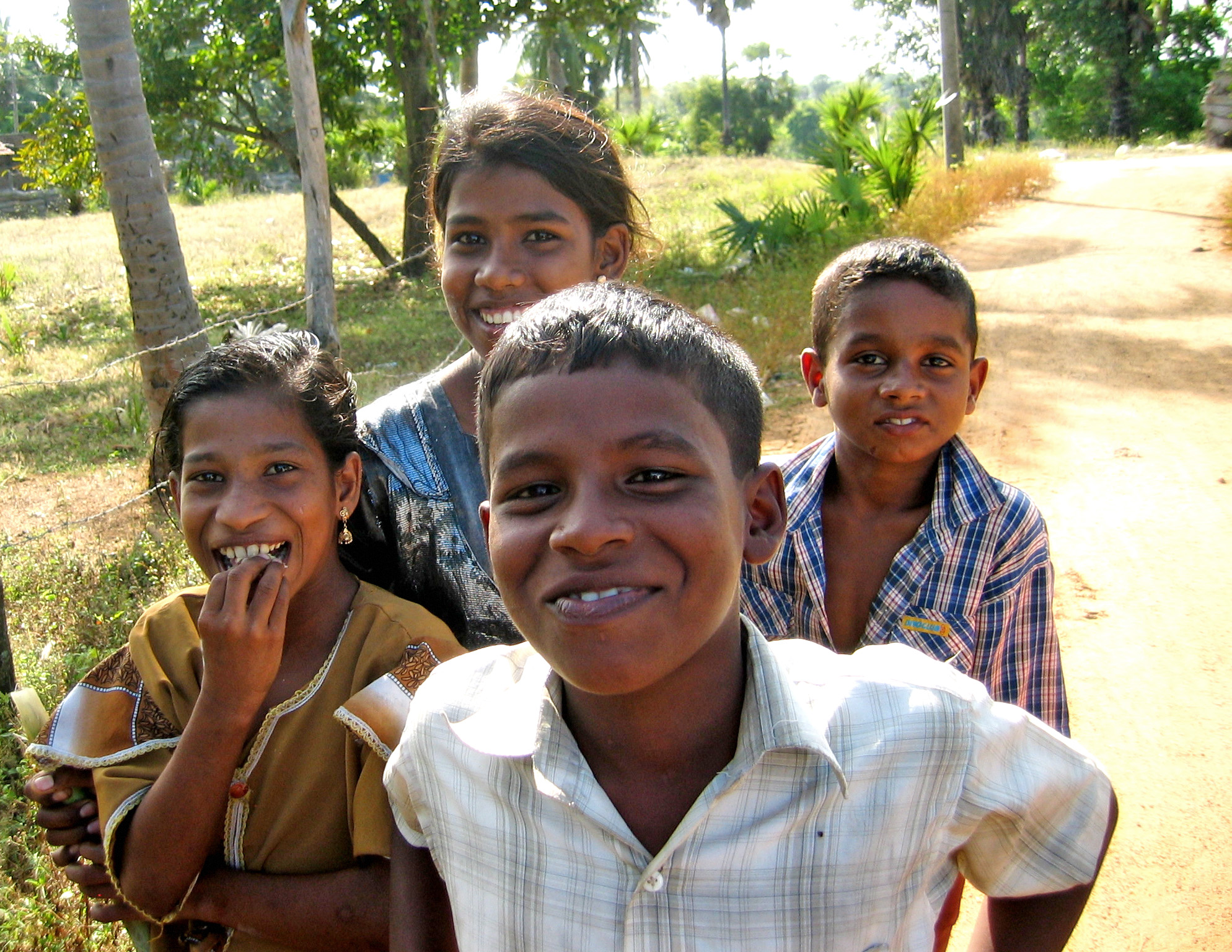 Photo by Kanoa Withington. Children from a village near Arugam Bay. March 2004.